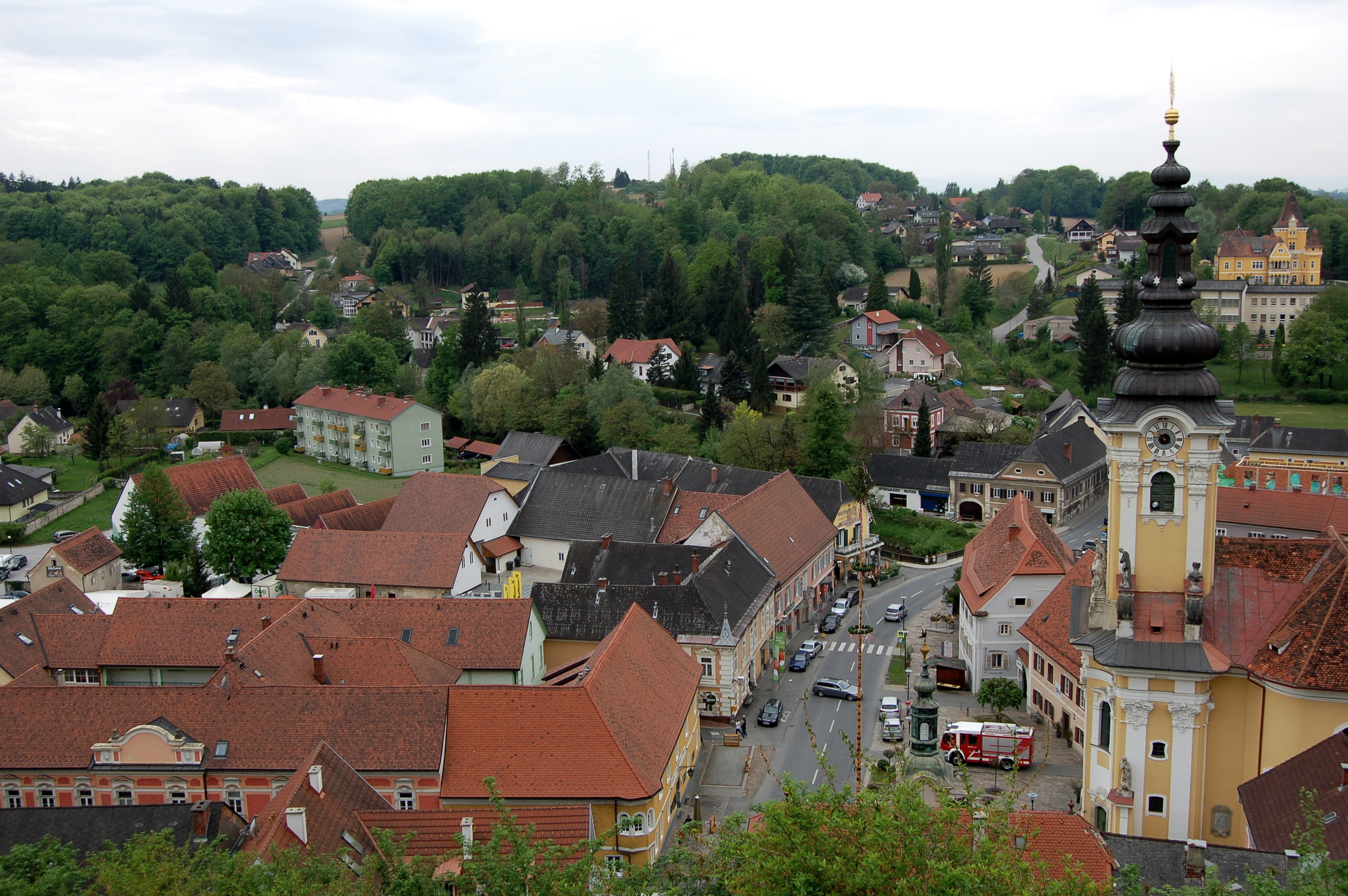 Marktplatz (i.e. Market square) and parish church of Ehrenhausen, Styria